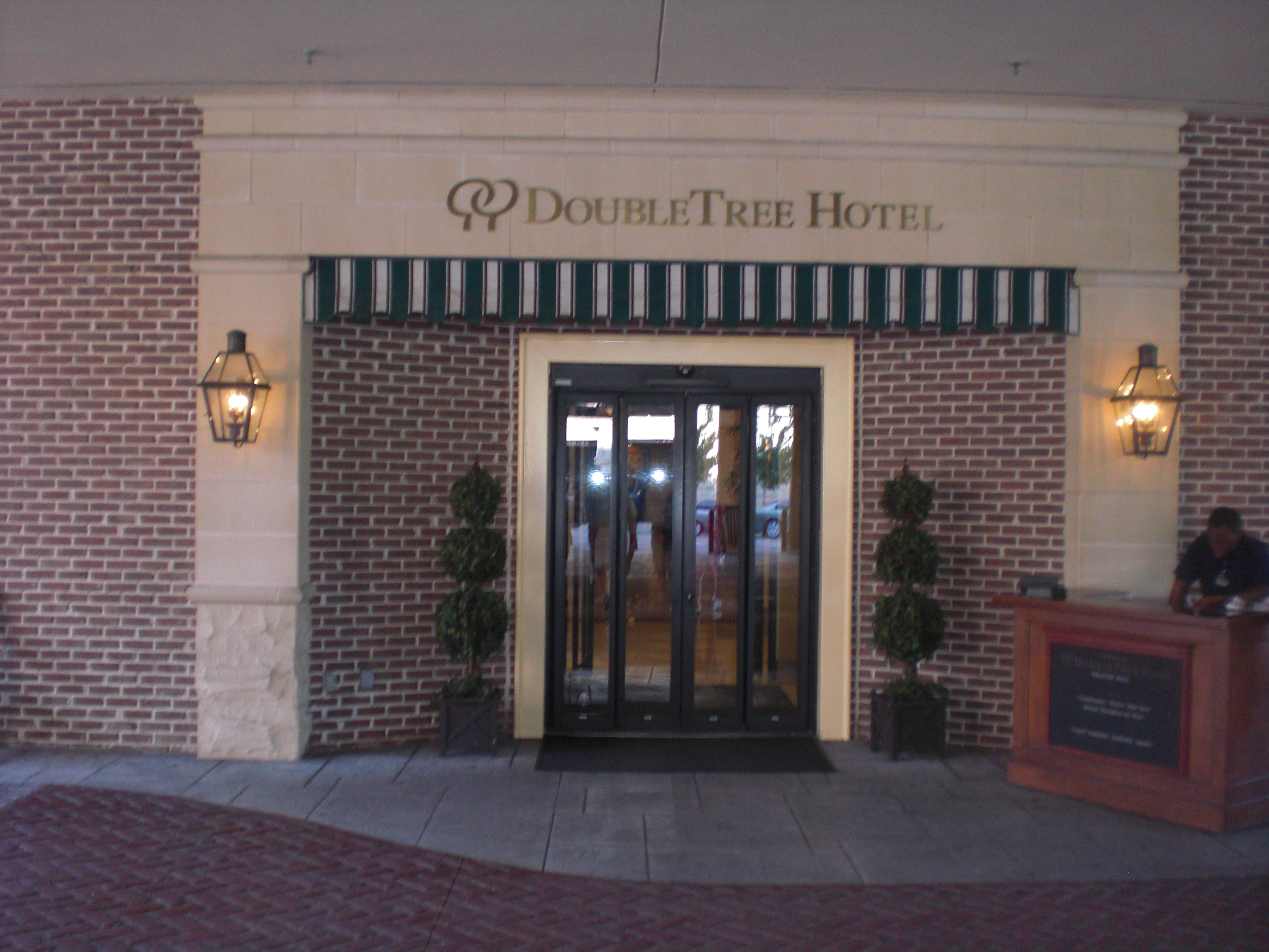 This is the Doubletree Savannah, Georgia